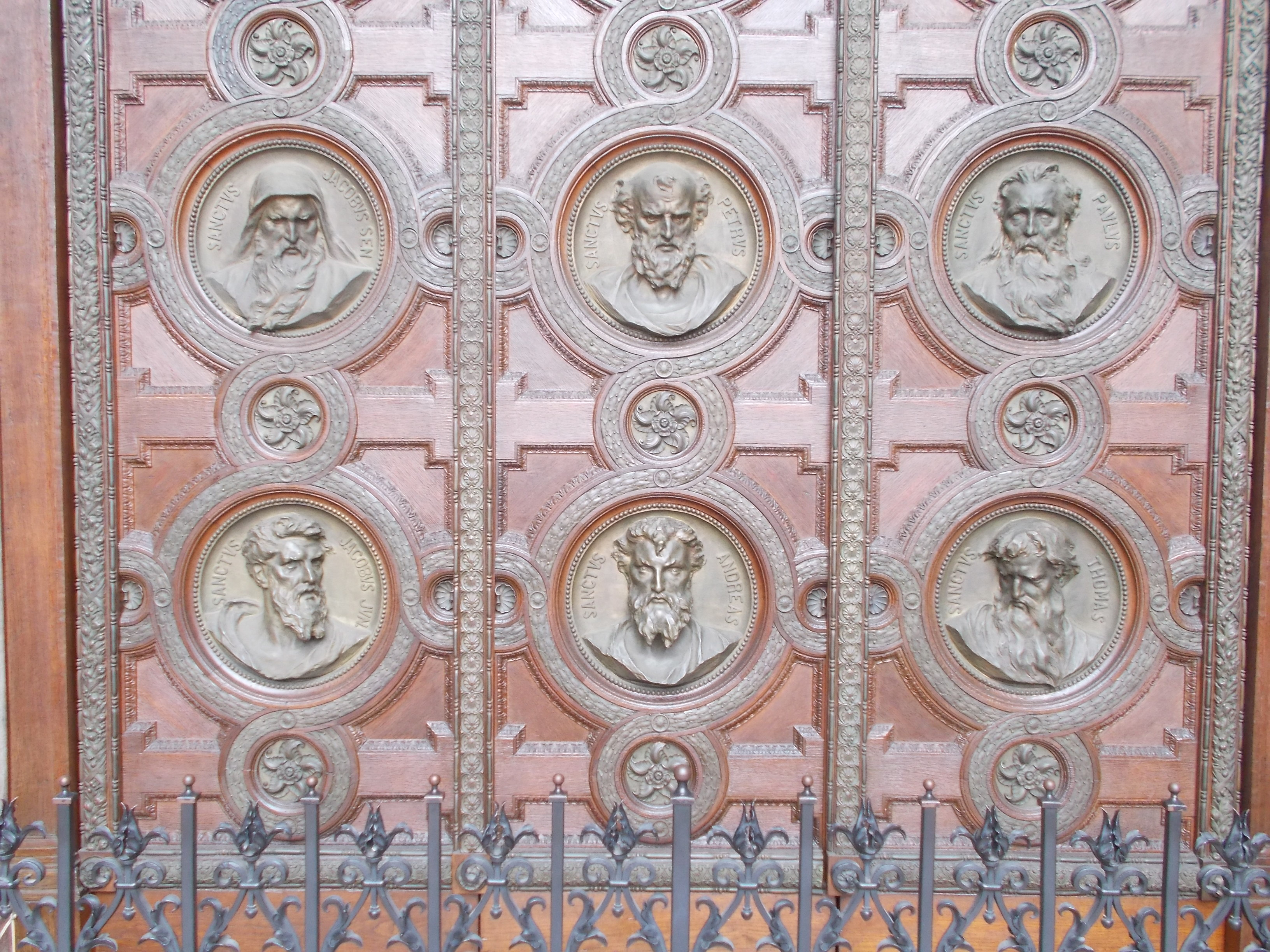 Main gate of the St. Stephen's Basilica decorated with The Twelve Apostles relief by Ödön Szamovolszky in 1904. Saint Bartholomew, Saint John the Evangelist, Saint Jude Thaddeus, Saint Matthias, Saint Philip, Saint Simon. - Square Szent István, Lipótváros neighbourhood, Budapest District V.